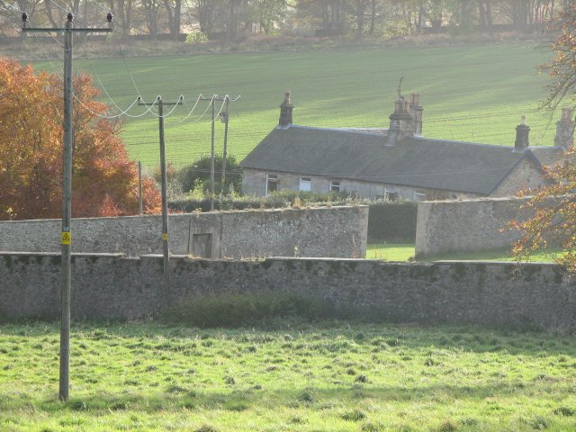 Cottages, Mortonhall estate Cottages sitting by a now disused walled garden. Viewed from Mounthooly Loan.